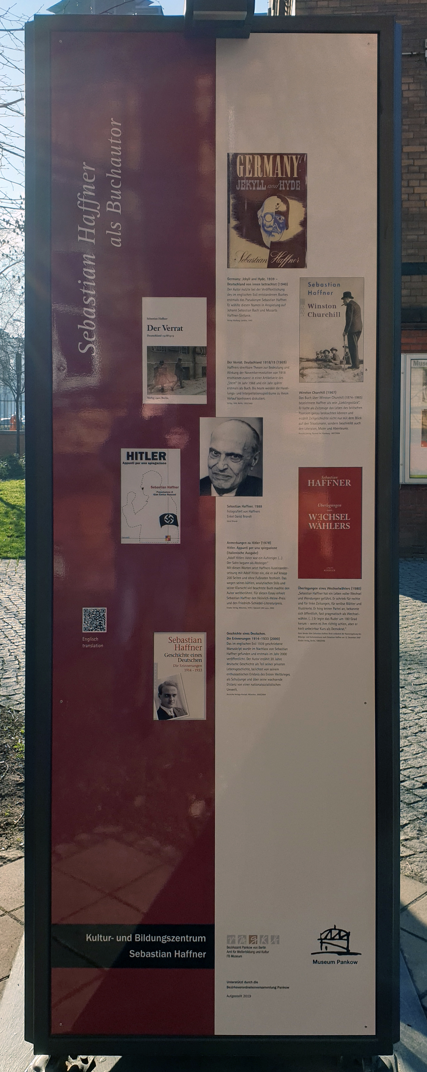 Memorial plaque, Sebastian Haffner, Prenzlauer Allee 227, Berlin-Prenzlauer Berg, Deutschland